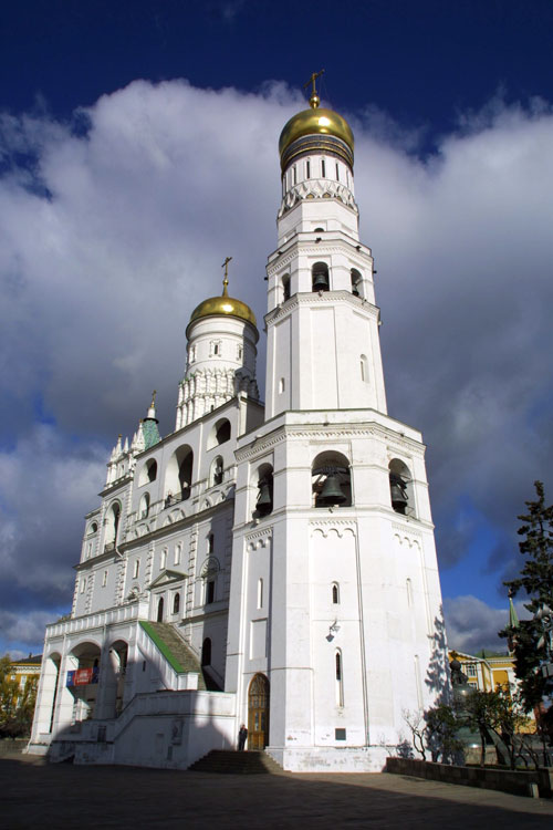 Moscow, the Kremlin. The Church of St. Ioann Lestvichnik and the Ivan the Great Bell Tower.